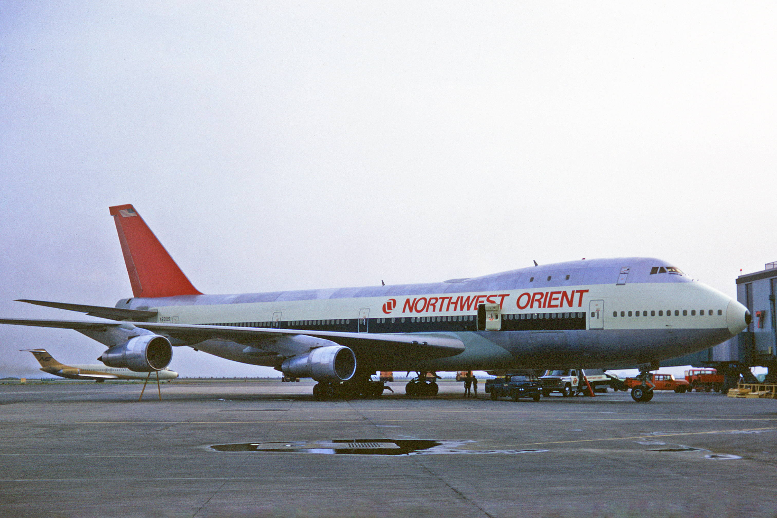 N601US, an early Boeing 747-100 (line no:27), was delivered to Northwest Orient Airlines in Apr-70 and was the first B747 to operate services across the Pacific. Northwest Orient was renamed Northwest Airlines in Oct-86. N601US continued in service until it was retired at Maxton, NC, USA, in Jan-01 after 31 years service. It was broken up at Maxton in late 2006 and the forward fuselage, including the flight deck, was donated to the Smithsonian National Air & Space Museum in Washington, DC, USA. It was reassembled and officially put on display in Nov-07.